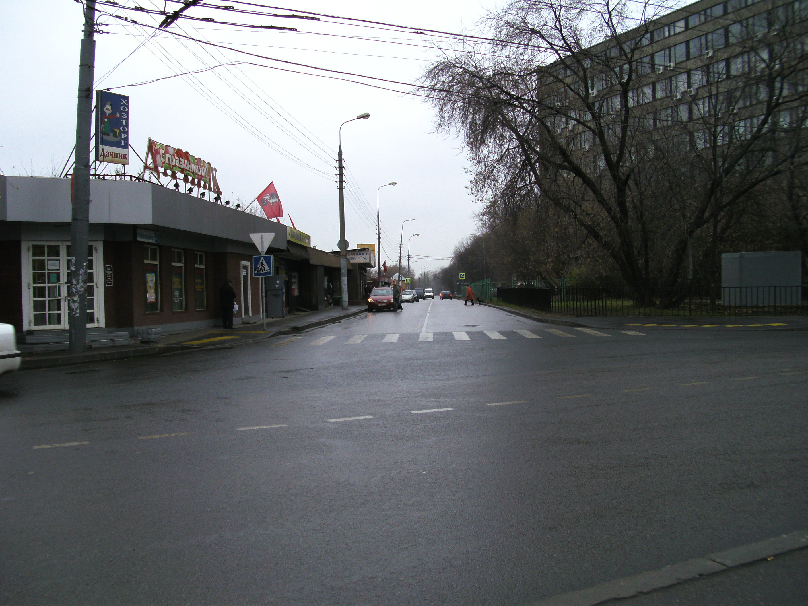 The beginning of 1st Voykovskiy proezd (Moscow)